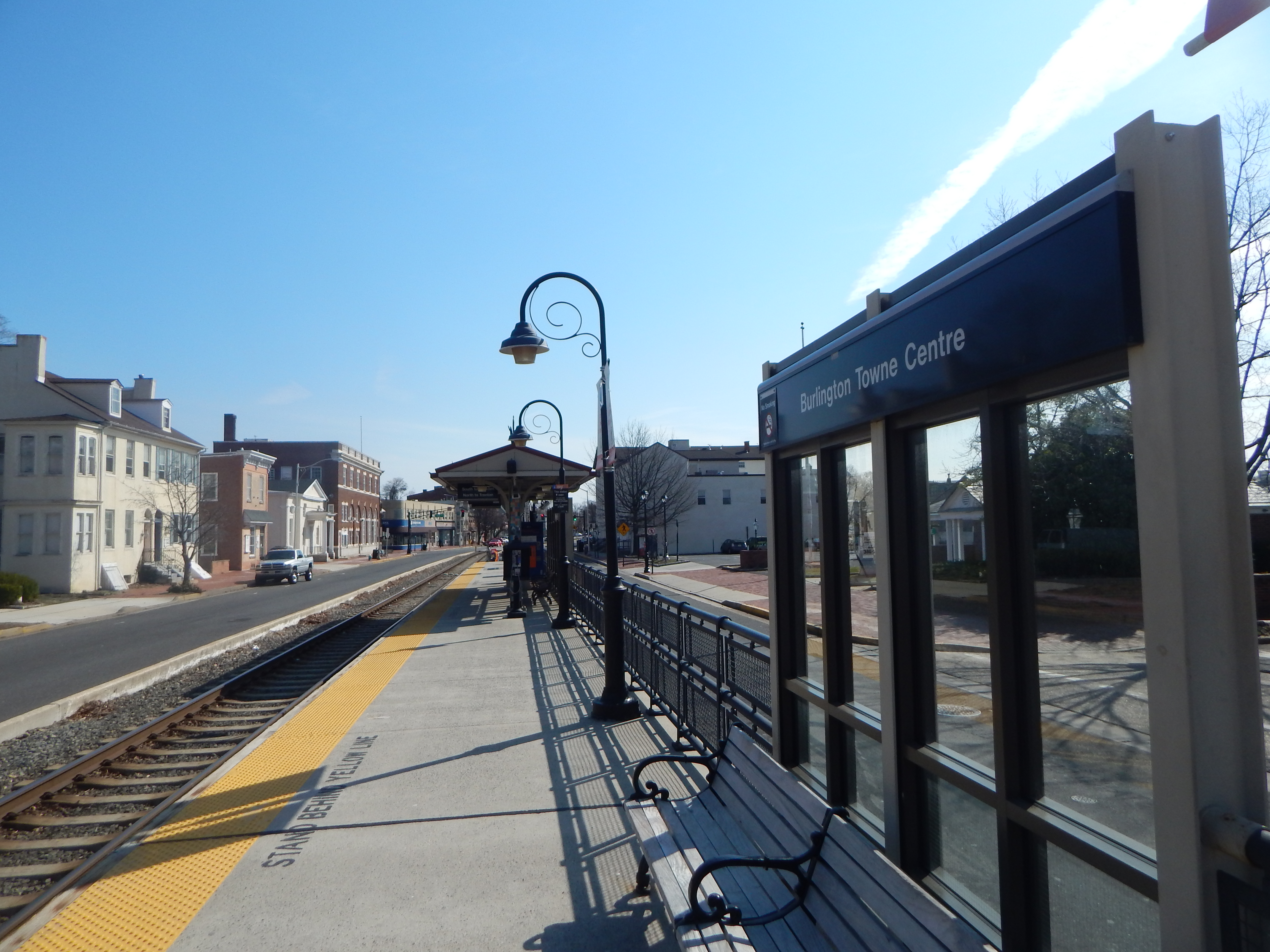 The Burlington Town Centre station in Burlington, New Jersey.